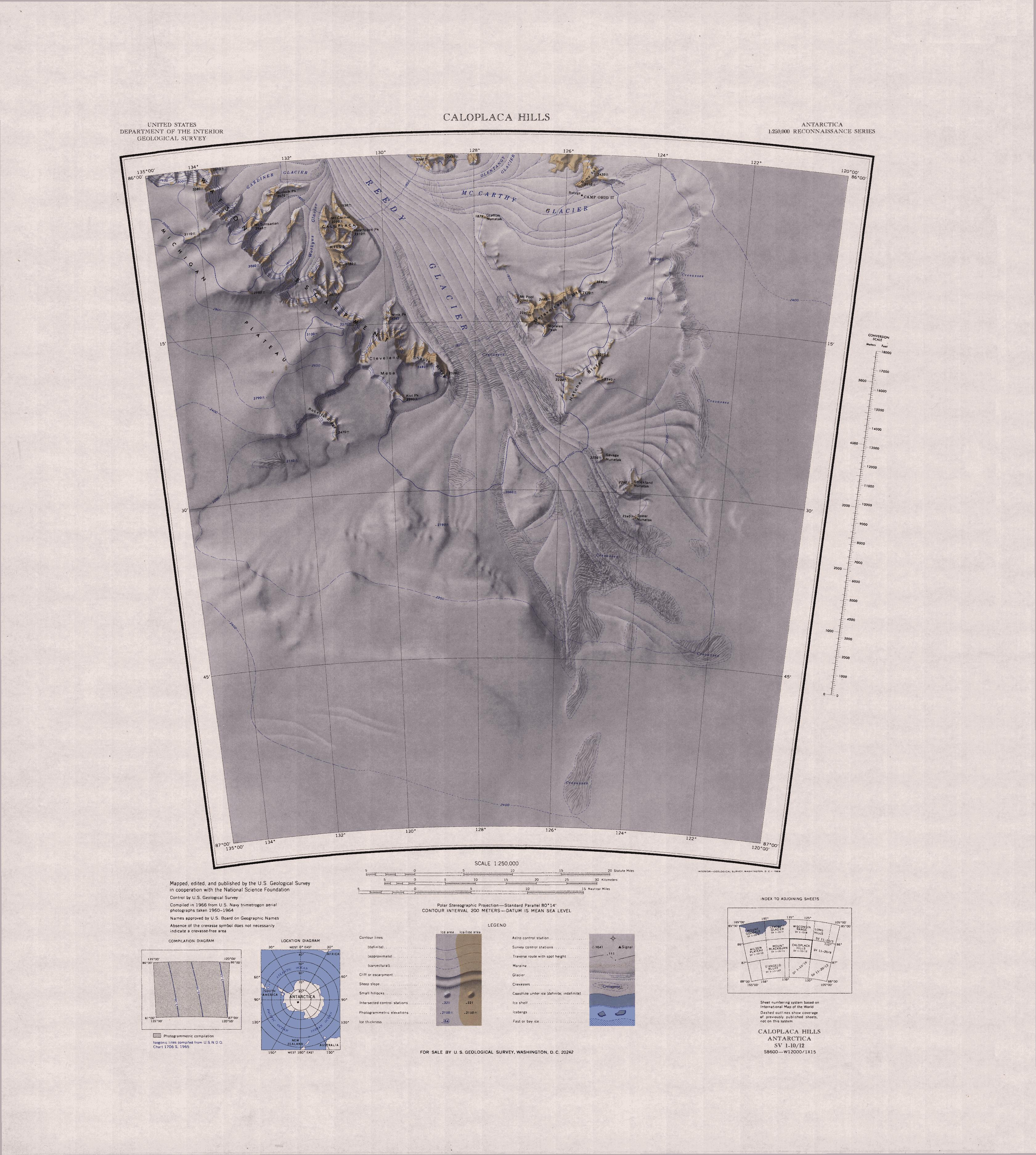 Map of Antarctica by the United States Antarctic Resource Center of the US Geological Society.